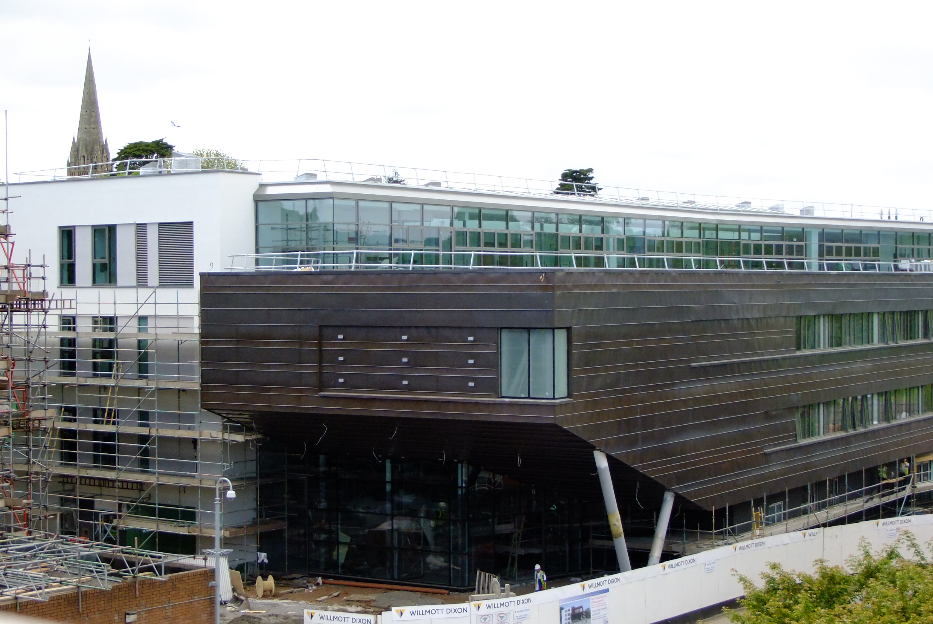 Image of UWIC's new Cardiff School of Management at the Llandaff Campus, Cardiff